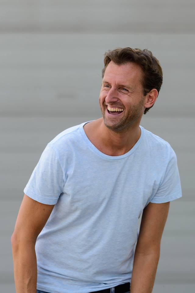 Photographed by LifeLine Photography